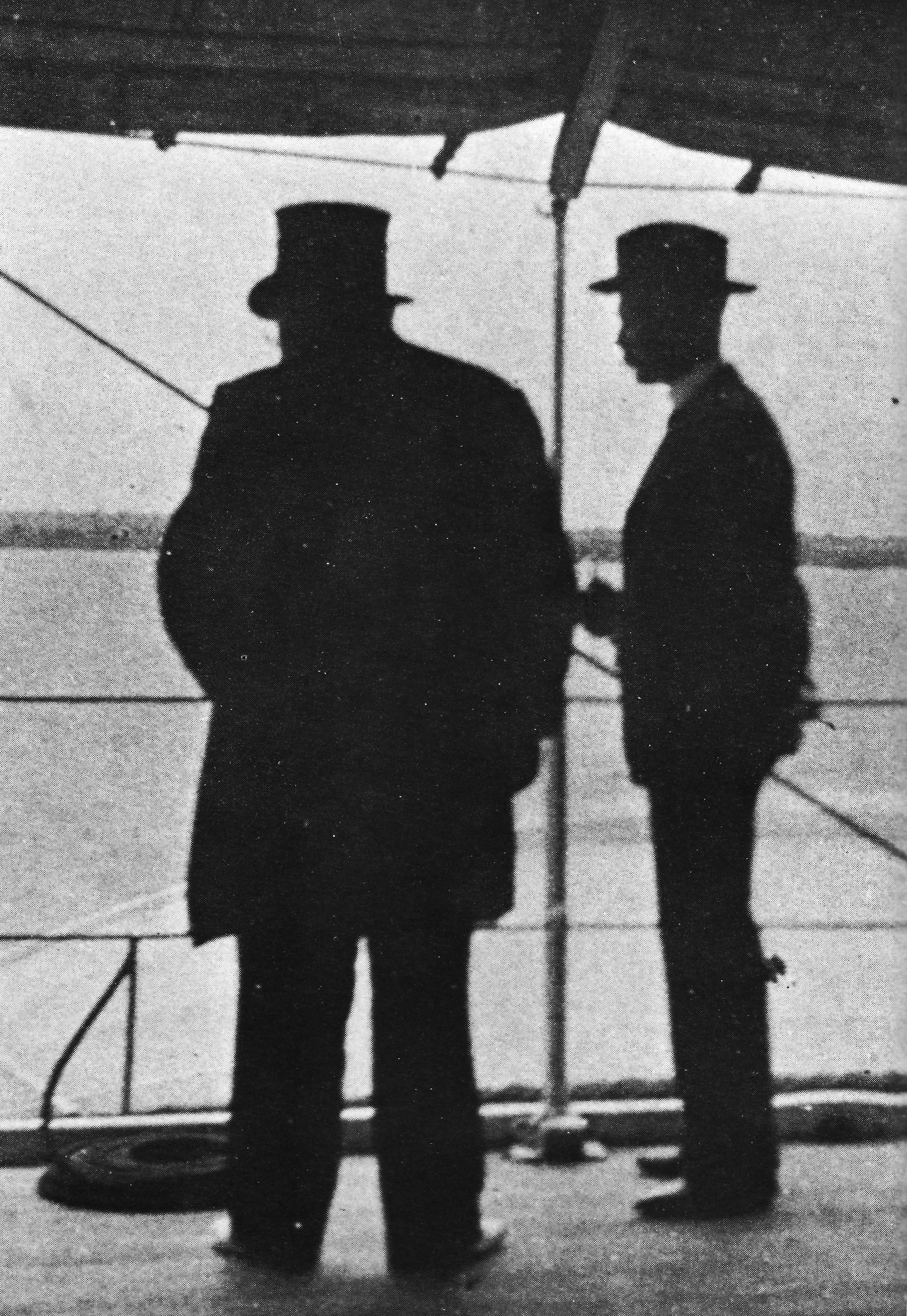 President Paul Kruger of the South African Republic (left) leaving Delagoa Bay, Mozambique on 20 October 1900 aboard HNLMS Gelderland (1898), looking back towards the shore. He spent the rest of his life in exile in Europe and never saw South Africa again. His biographer Johannes Meintjes calls this "one of the most striking and moving photographs ever taken of President Paul Kruger." The man on the right is Manie Bredell, who served as the President's private secretary for the rest of his life. Kruger died in Switzerland in 1904.